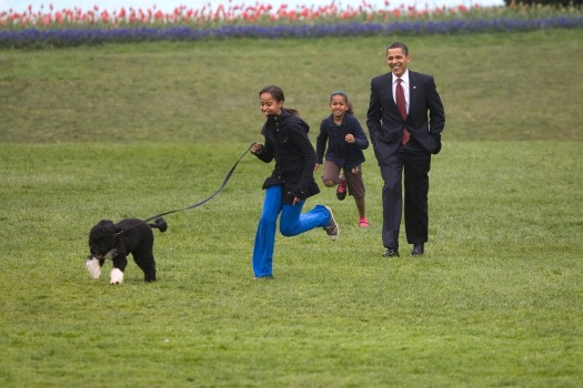 The First family and Bo, their new Portuguese water dog, run on the South Lawn of the White House.